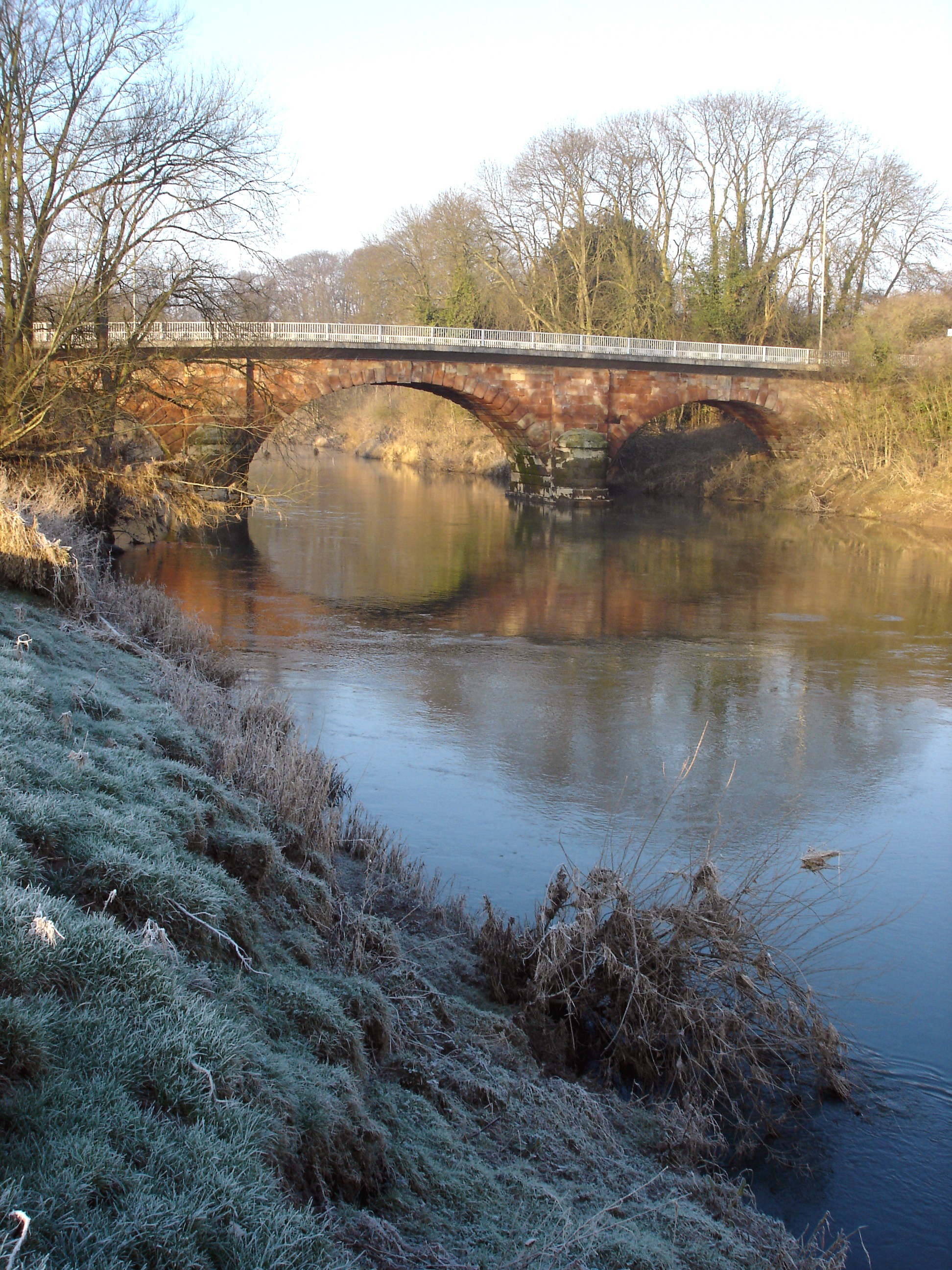 Monford Bridge In Shropshire, England. Spanning the River Severn.